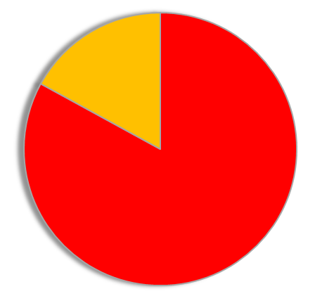 Expressed as a pie chart in the Yamanashi gubernatorial election in 2011, the number of votes for each candidate. explanatory notes ■ - Shomei Yokouchi ■ - Reko Okubo